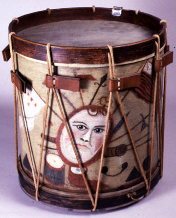 Snare drum, around 1780 Restored snare drum. The drum and drumsticks (:Image:DrumsticksforSnareDrumCa1780.jpg) were reportedly carried by Luther W. Clark at the Battle of Guilford Courthouse. Wood, sheepskin, linen. Height 41.9, Diameter 39.4 cm. Guilford Courthouse National Military Park, GUCO 349 Source: National Park Service: Information presented on this website, unless otherwise indicated , is considered in the public domain. It may be distributed or copied as is permitted by the law.